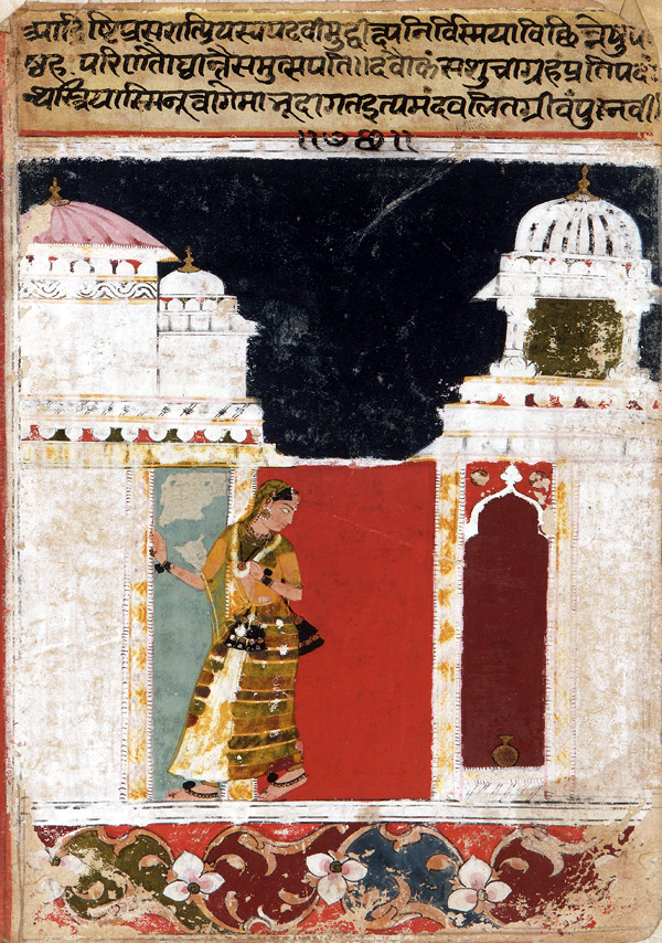 Wife awaits her husband (Verse 76); a scene from Amaru Shataka by Sanskrit poet, Amaru, an early 17th century painting. Color and slight gold on paper. Rajput, India.